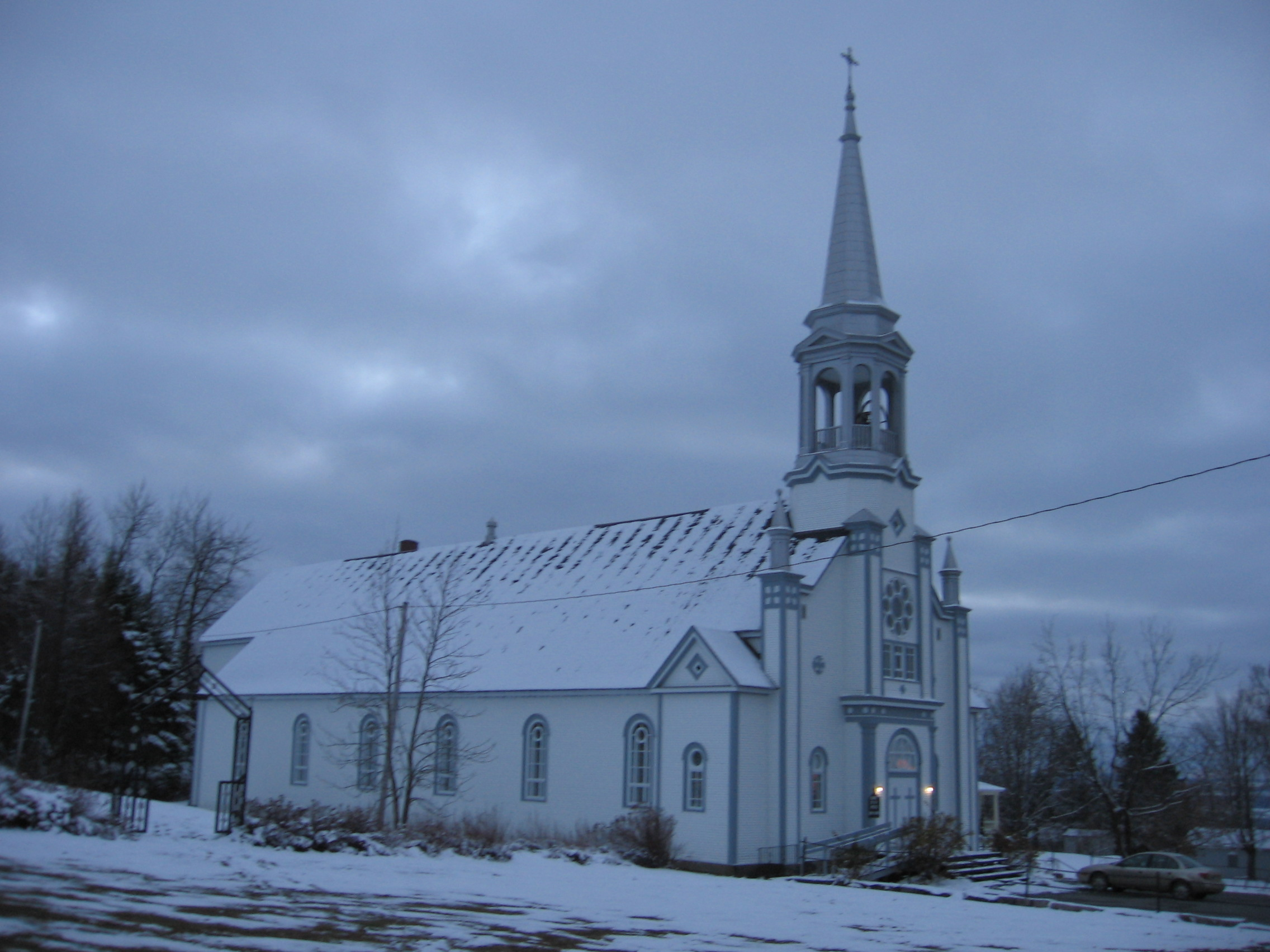 Church of Saint-Malo